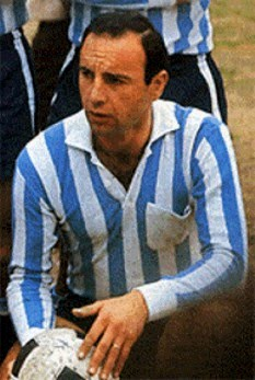 Humberto Maschio when returned to play at Racing Club.